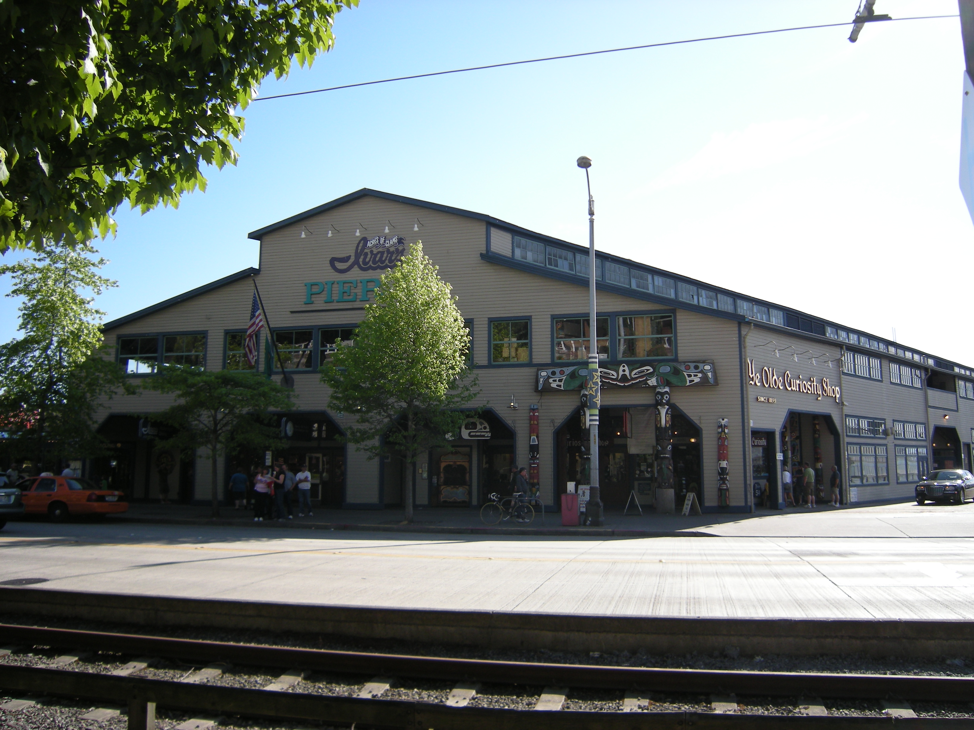 Pier 54, Seattle, Washington, housing Ivar's Acres of Clams and the Olde Curiosity Shop.